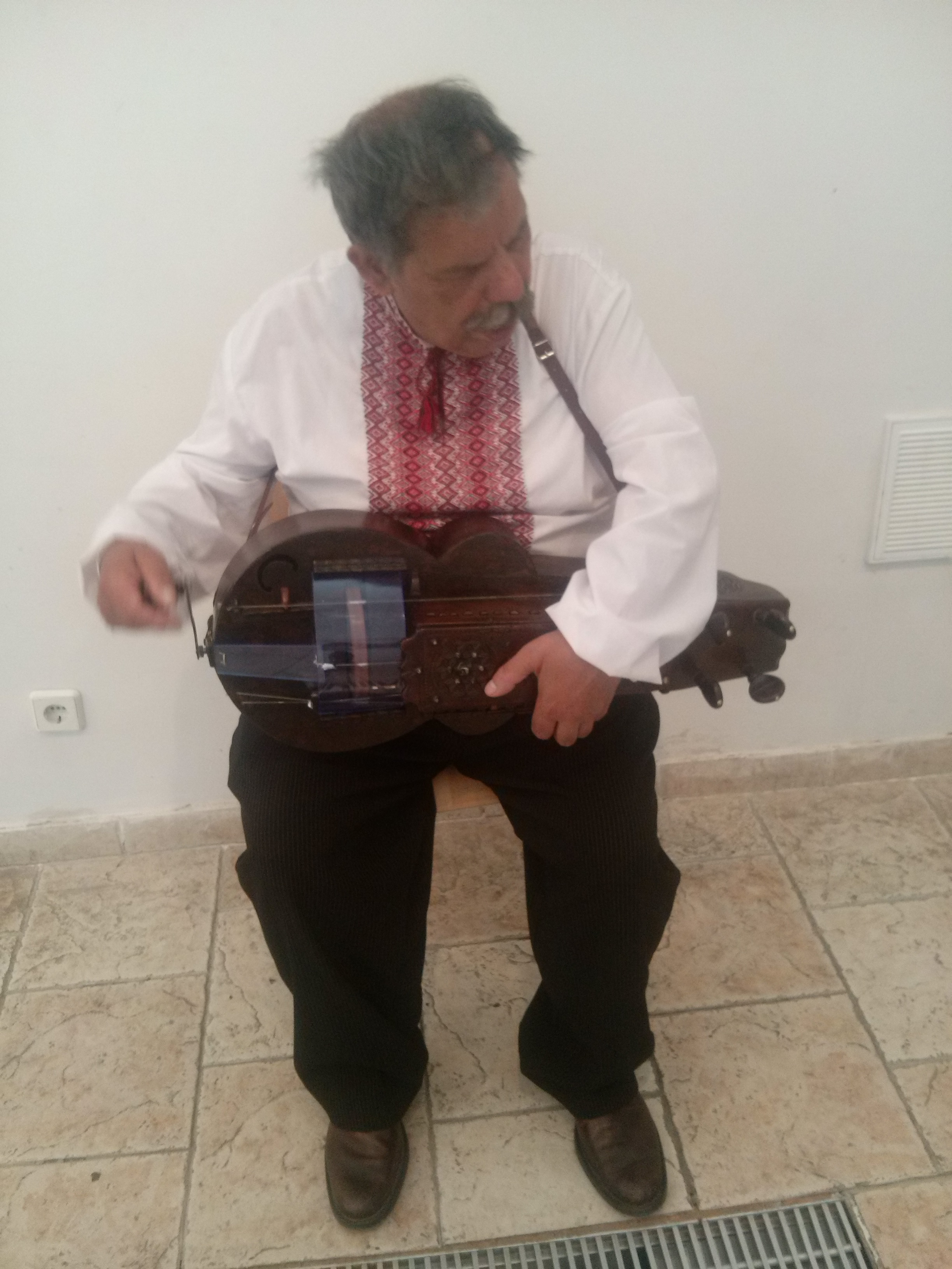 Blind Ukrainian singer and Hurdy-gurdy-player Laiosh Molnar plays old german hurdy-gurdy (XVII-th century) restored by famous German musician and reconstructor Kurt Reichmann